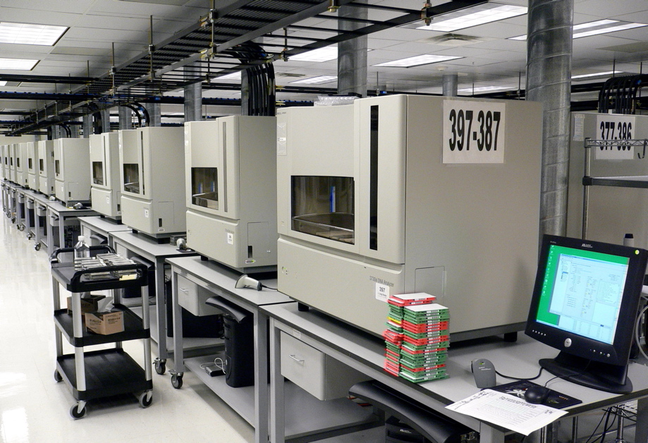 A row of DNA sequencing machines on SteelSentry tables (3730xl DNA Analyzer machines from Applied Biosystems).